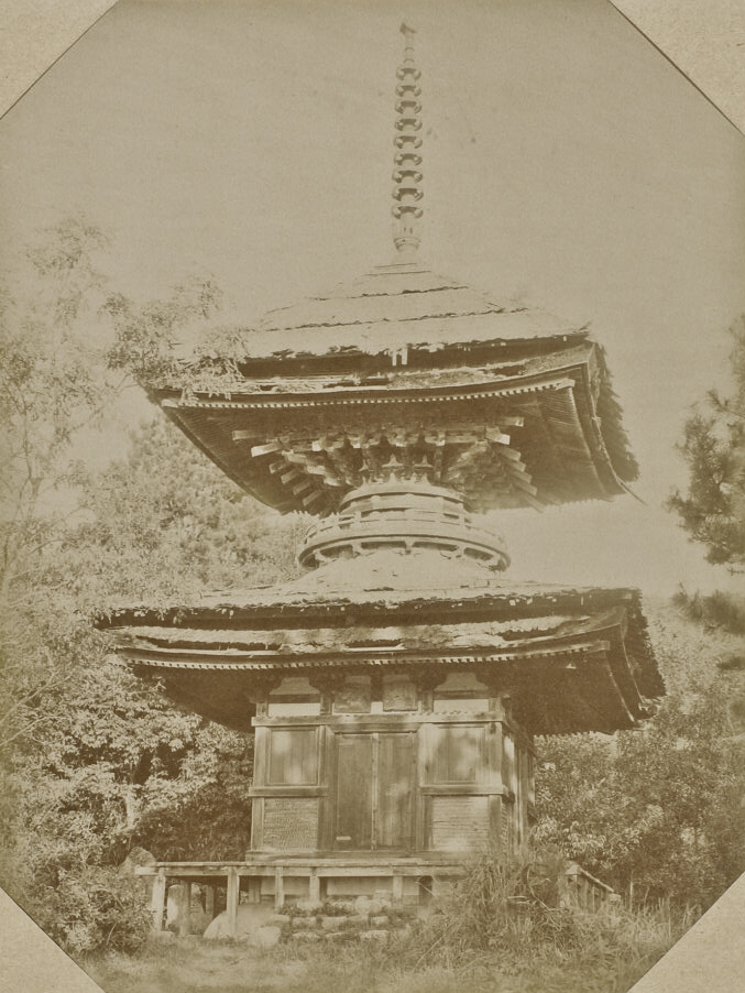 Tahoto, Byakugoji, Nara, Nara, Japan